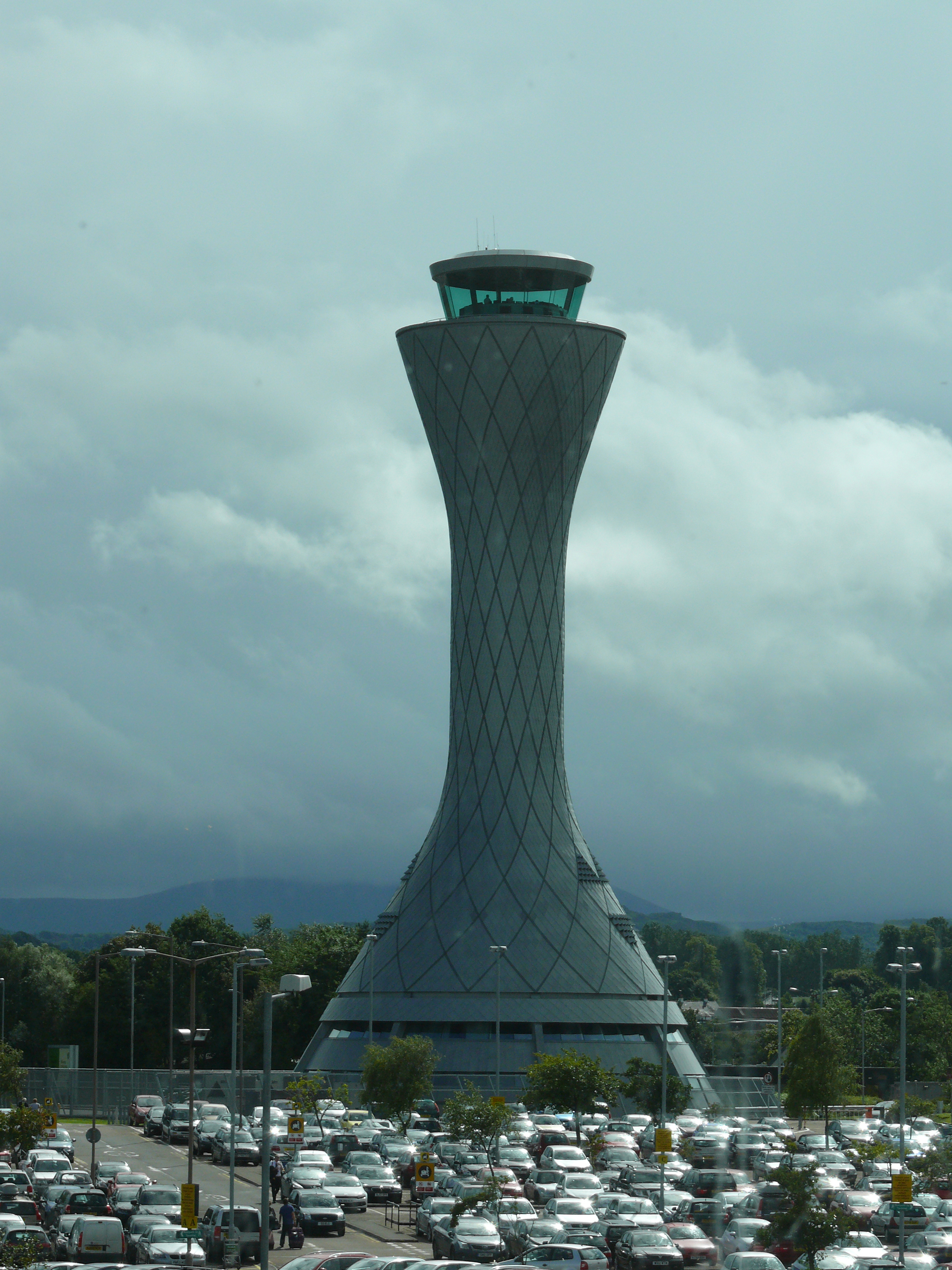 Control tower at Turnhouse Edinburgh Airport.